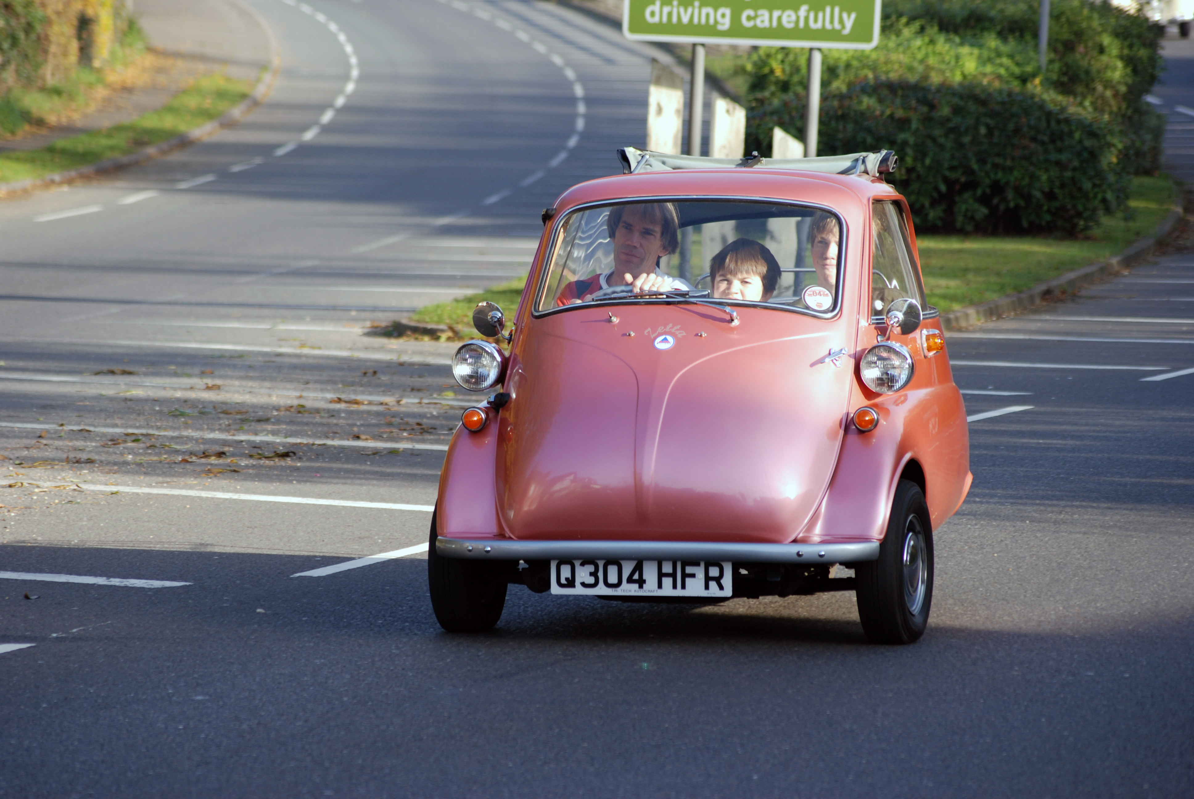 A23 Merstham Nov 2007